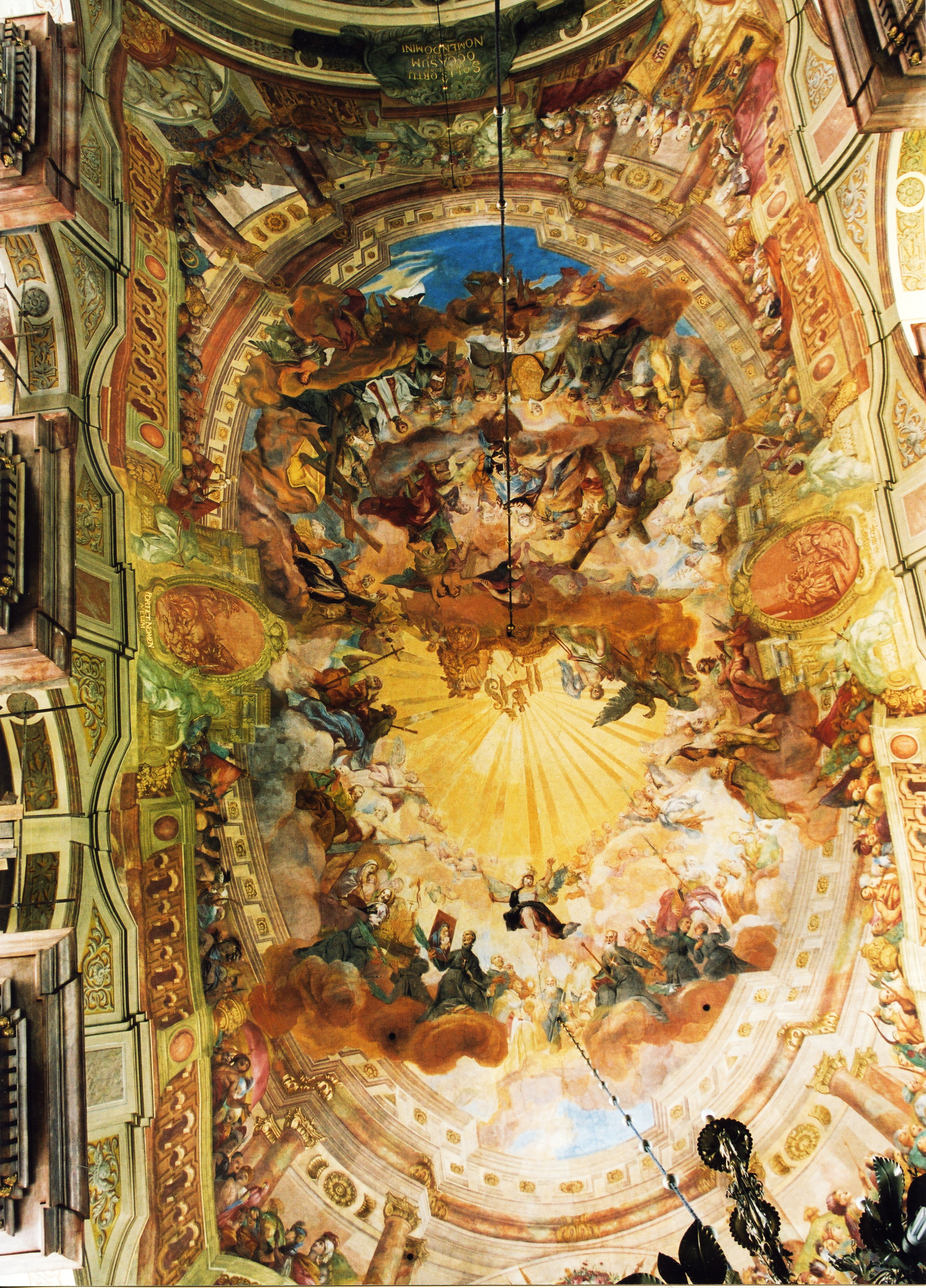 University Church of the Blessed Name of Jesus in Wrocław